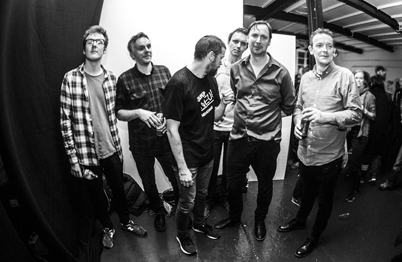 Hey Colossus post-gig: Centrala, Birmingham - December 2018 Feat. (L-R) Will Pearce, Chris Summerlin, Rhys Llewellyn, Joe Thompson, Paul Sykes and Robert Davis